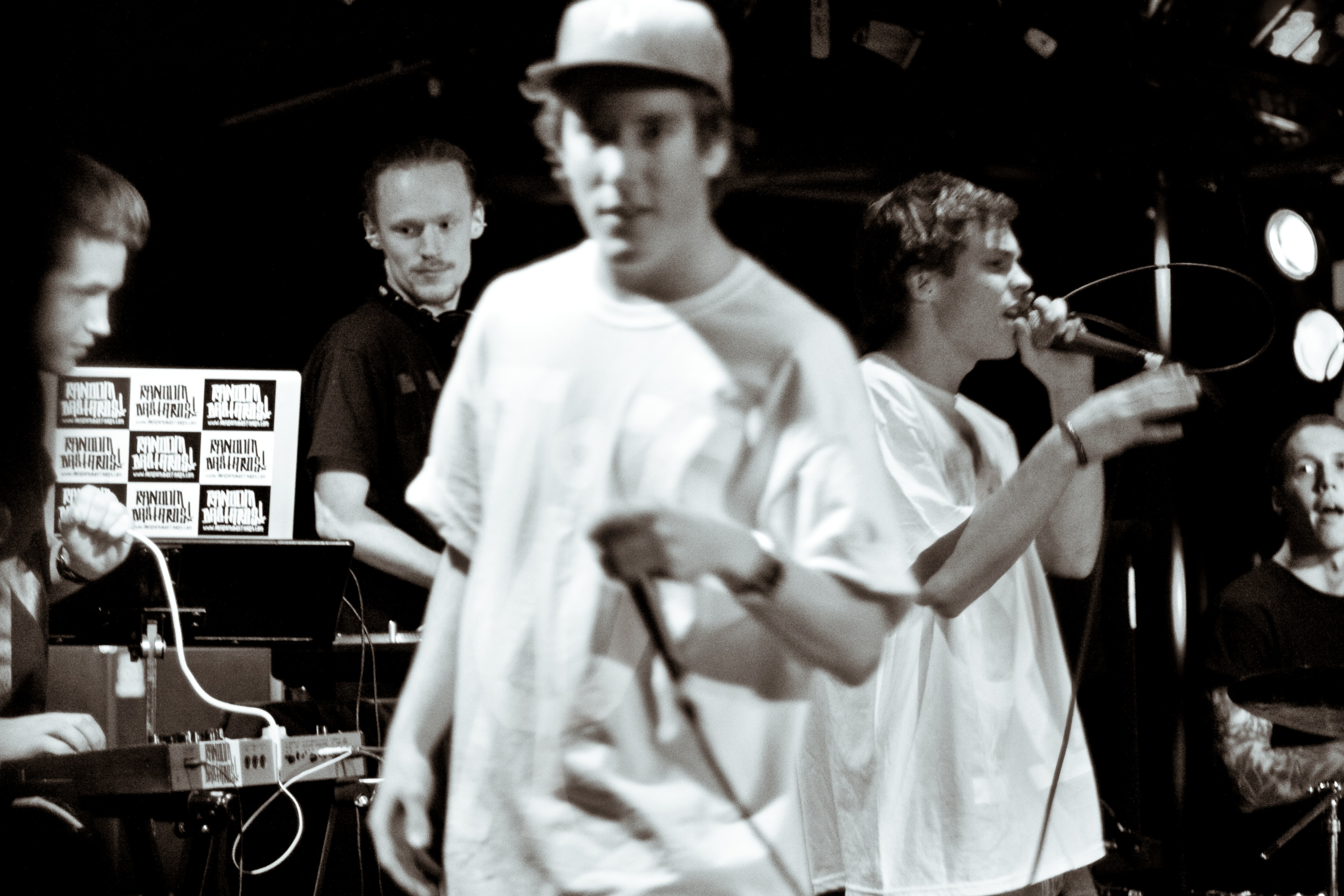 Trainspotters and band live at Umeå Jazz Festival, 2009